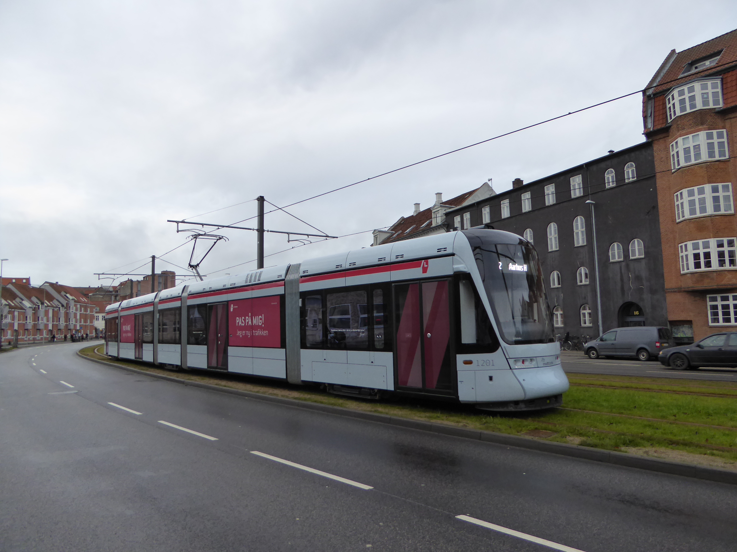 Stadler Variobahn of Aarhus Letbane on Nørreport on the opening day of Aarhus Letbane.